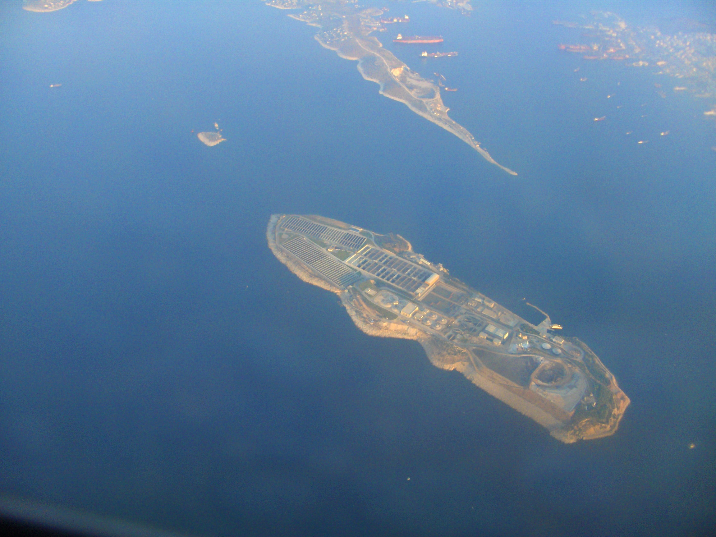 Psyttaleia island in the Saronic Gulf; at upper eft the tiny island Atalanti.